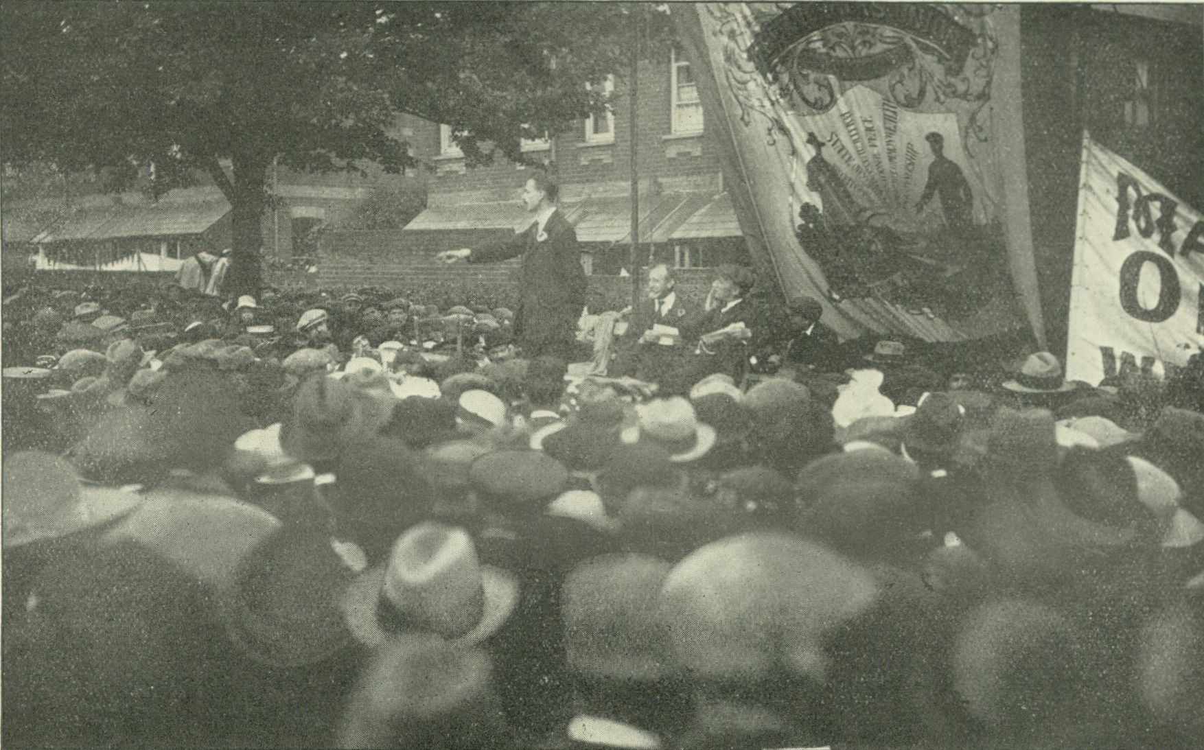 Percy F. Pollard addressing a demonstration in Chelmsford, organised by the Workers' Union